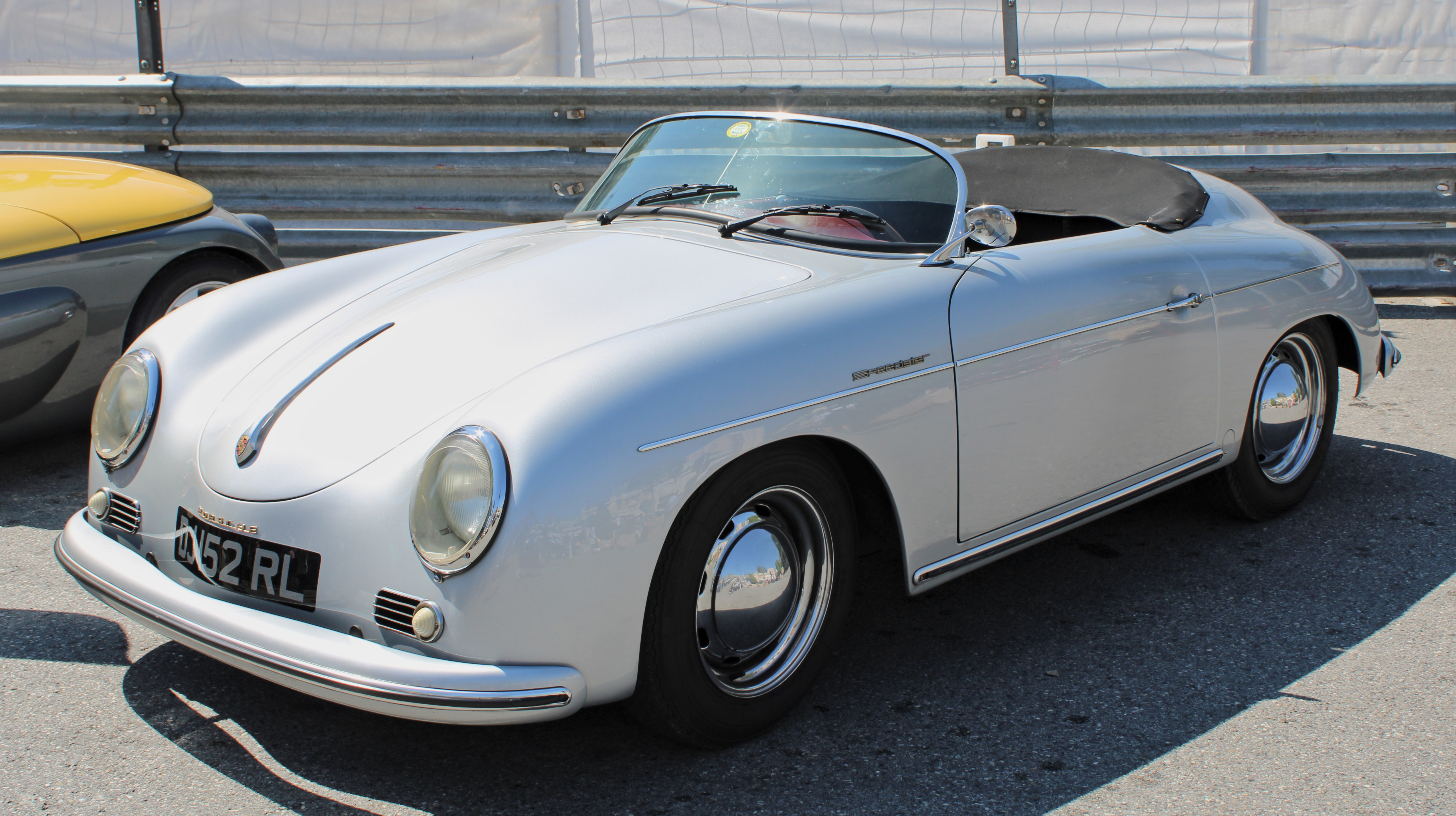 Porsche 356 Speedster in Monaco